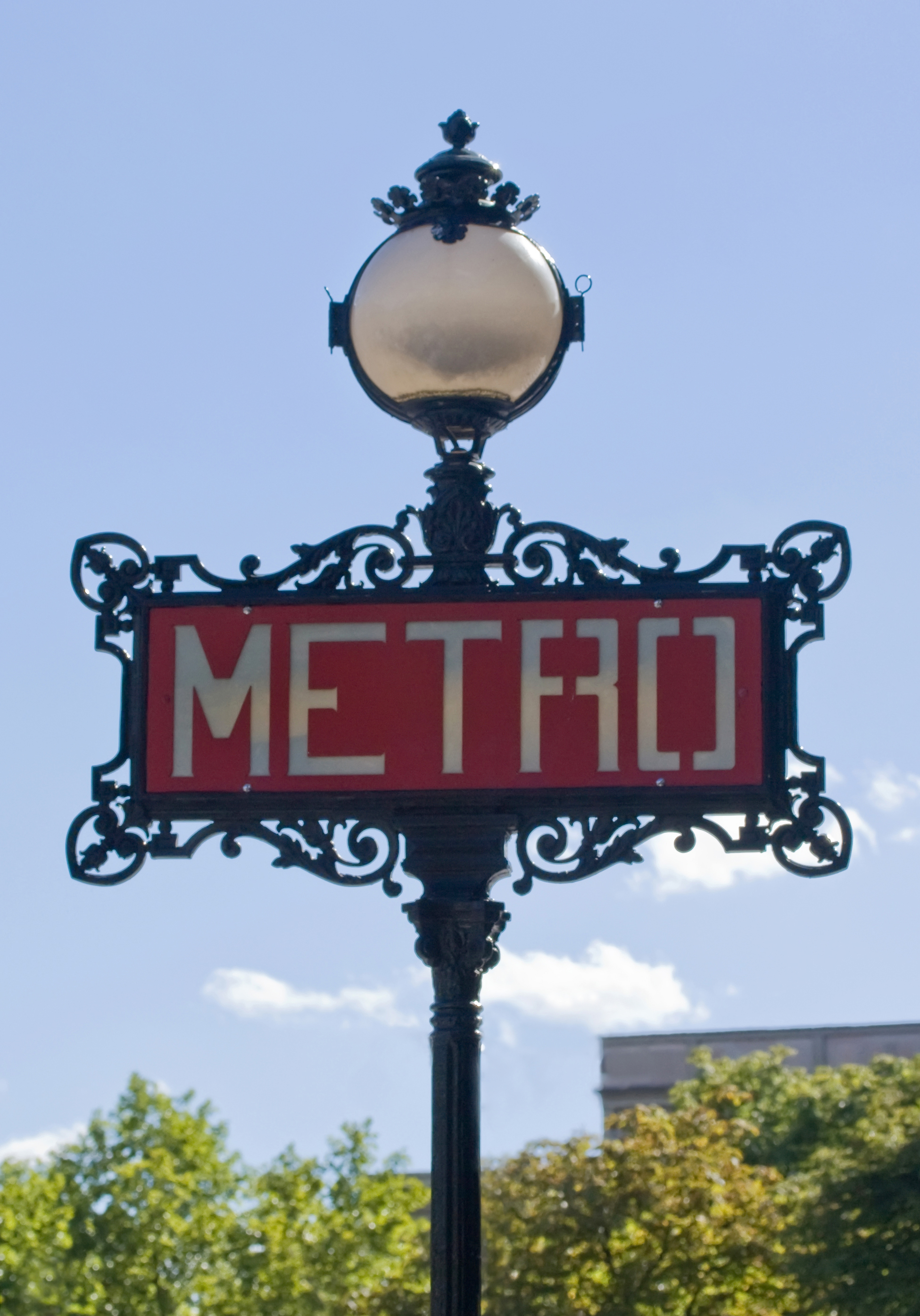 A rare Val d'Osne signpost of the Paris Métro, at the Avenue d'Iéna entrance to the Iéna station.